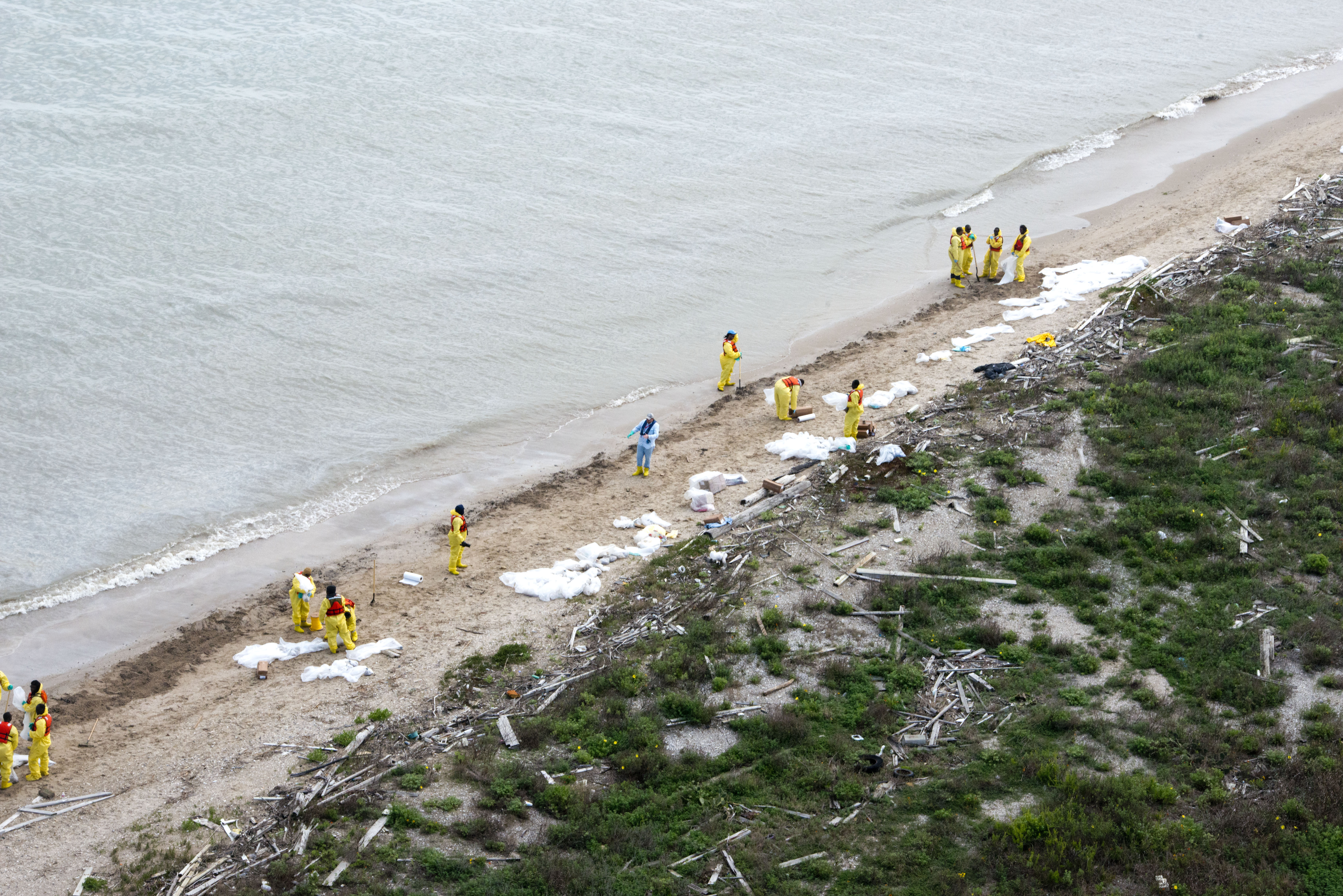 Federal and local agency workers help clean up the beaches affected by an oil spill March 27, 2014, in Texas City, Texas. More than 71,000 feet of boom was deployed in response to the oil spill. The spill occurred March 22, 2014, after a collision between a bulk carrier and a barge in the Houston Ship Channel.